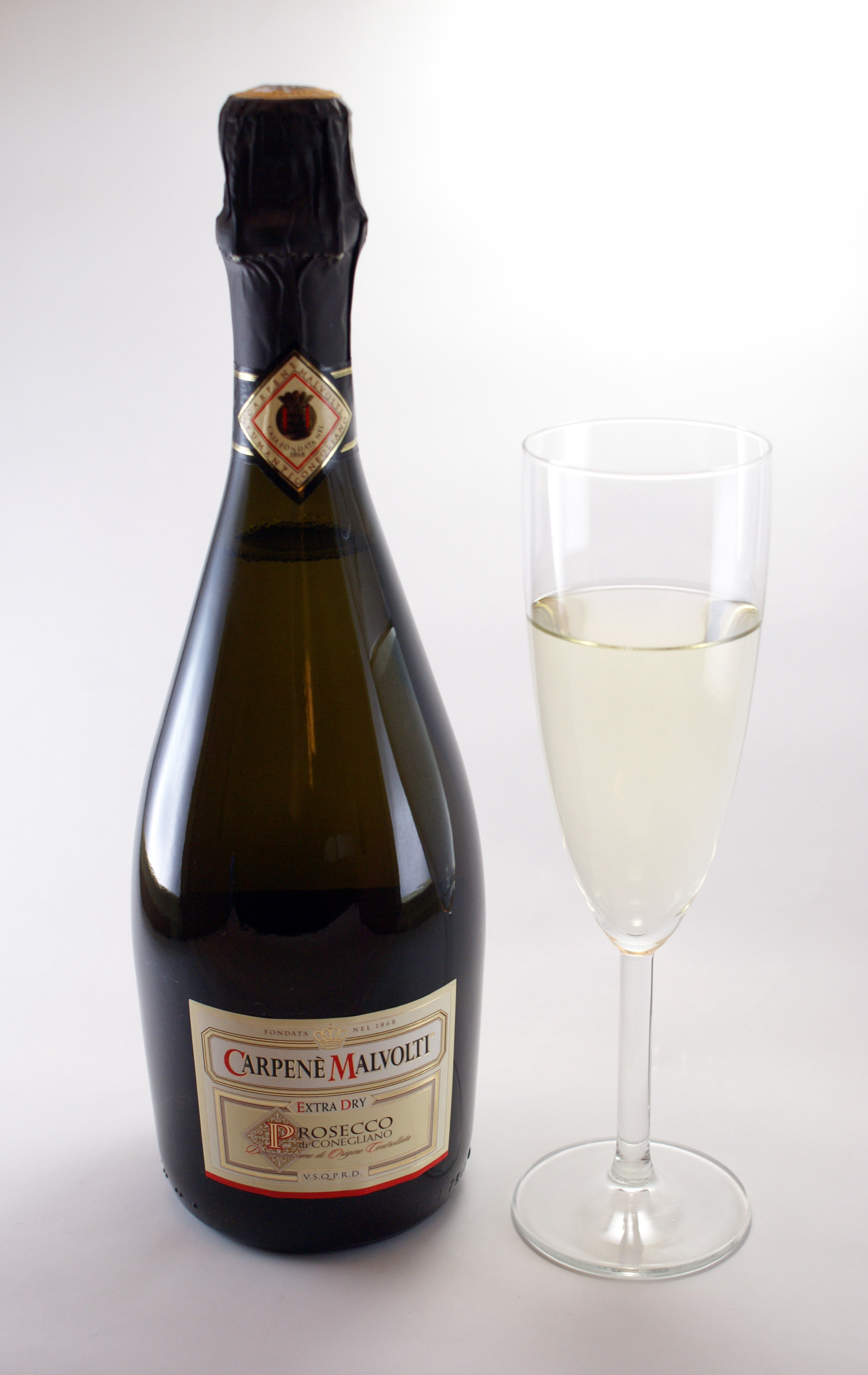 Prosecco di conegliano spumante extra dry and a glass of cheaper canned prosecco frizzante.